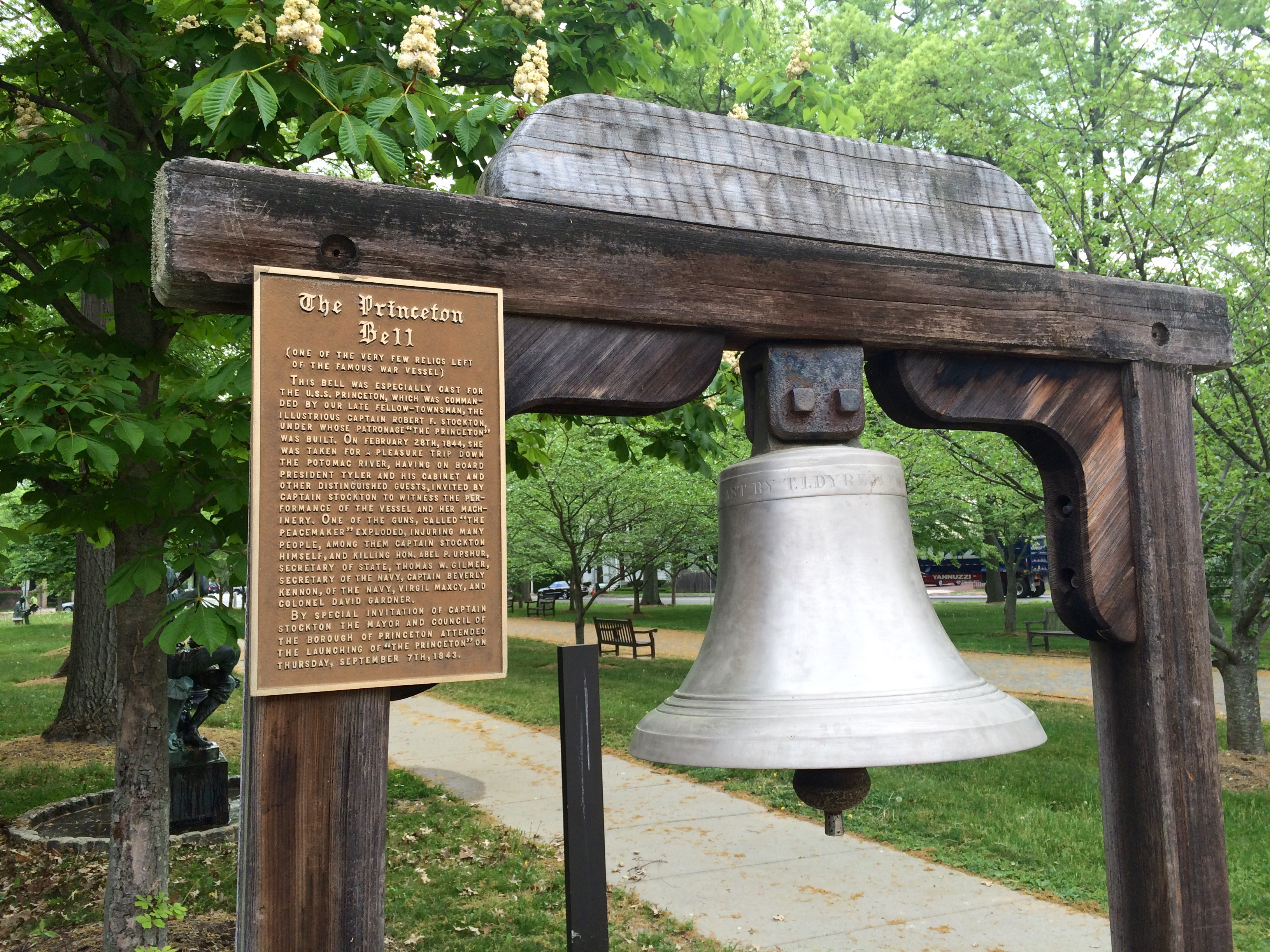 The bell of the USS Princeton (1843)